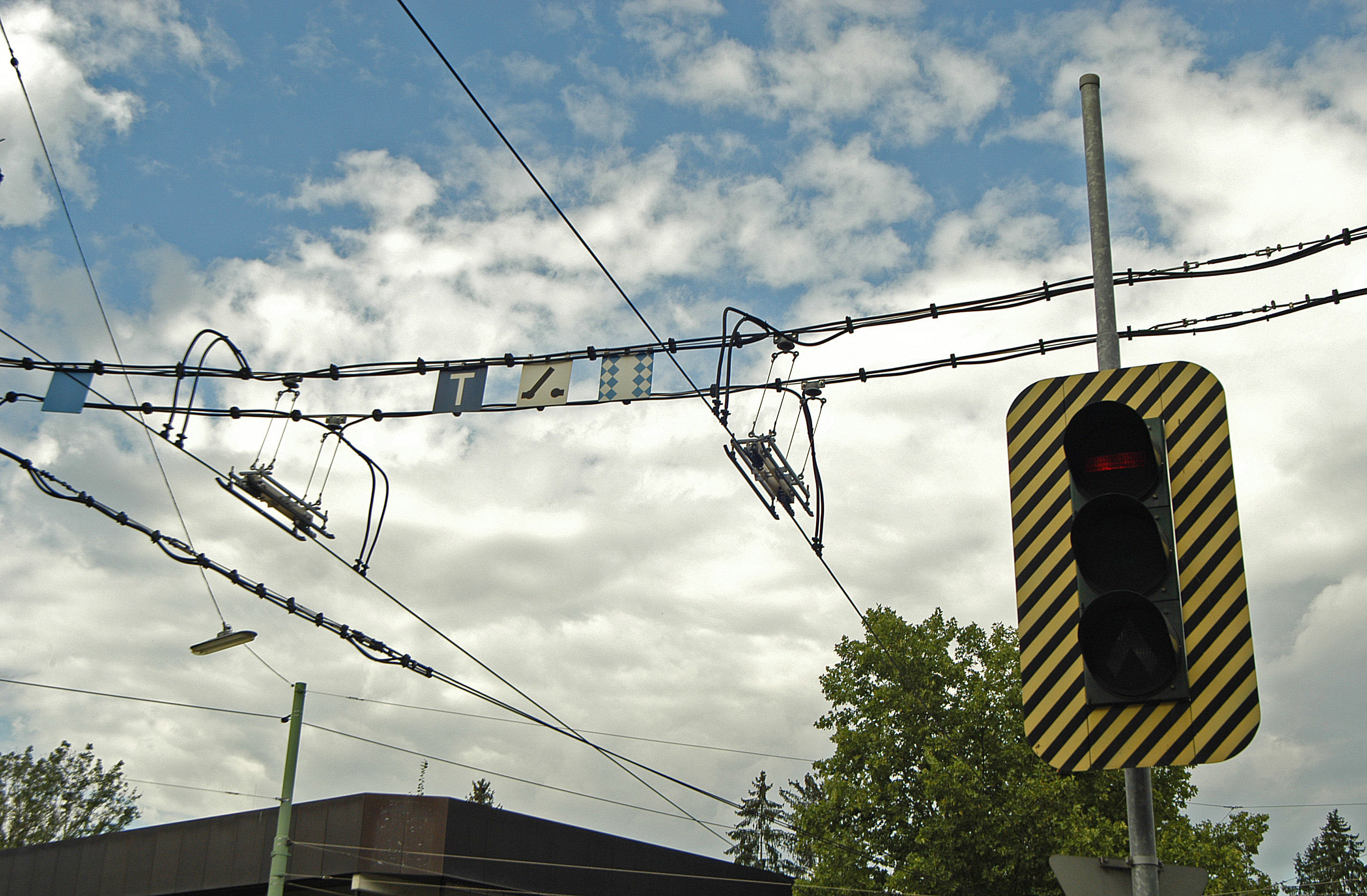 Please report references to kulacgmx.at.